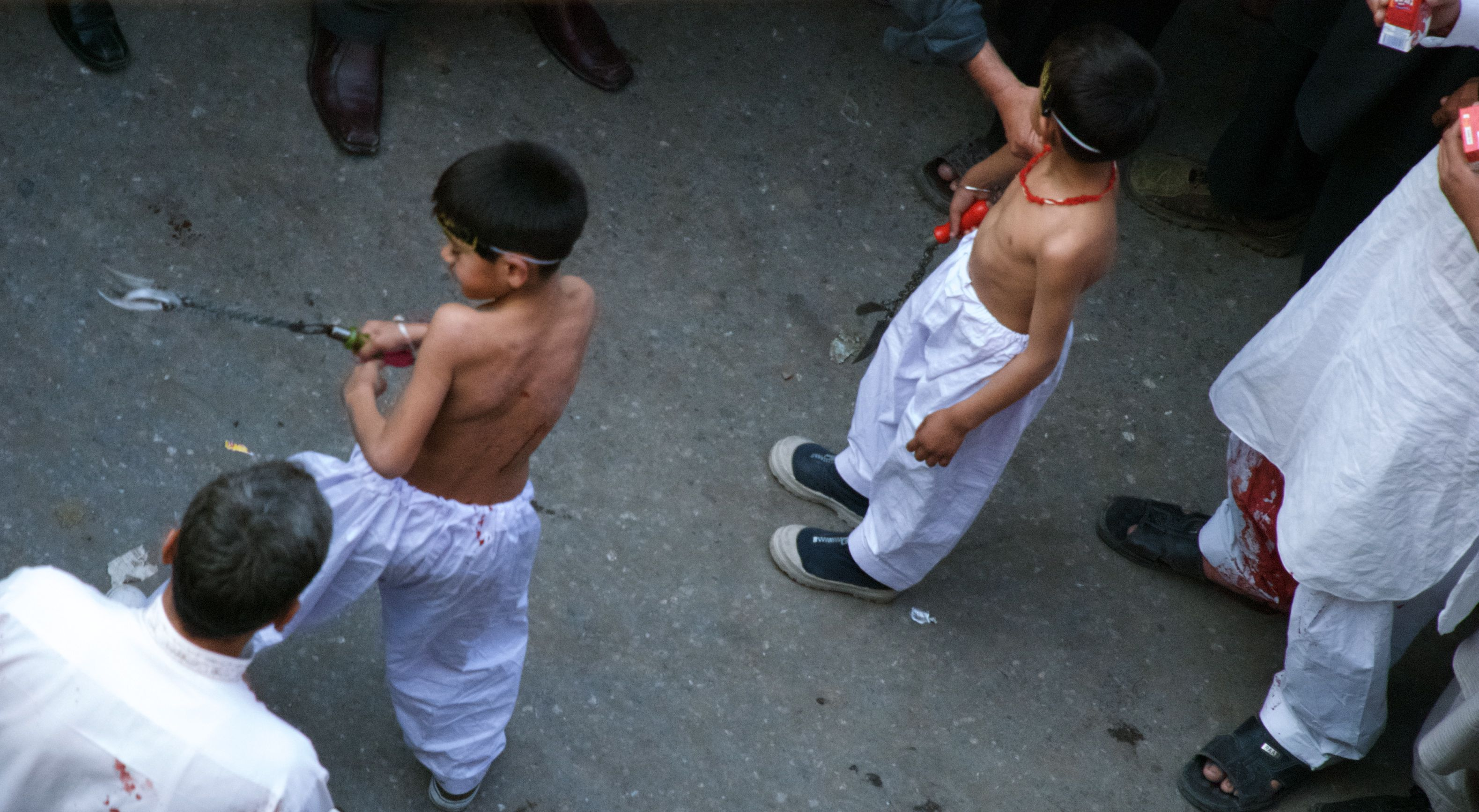 Shia Muslims commemorate the martyrdom of Hussein ibn Ali on the Day of Ashura during Sunni-Shia conflict in the early history of Islam. Muharram is the day of mourning. Shia march in the streets, self flagellating, flailing and beating themselves. Certain traditional flagellation rituals such as Talwar zani (talwar ka matam or sometimes tatbir) use a sword. Other rituals such as zanjeer zani or zanjeer matam involve the use of a zanjeer (a chain with blades).